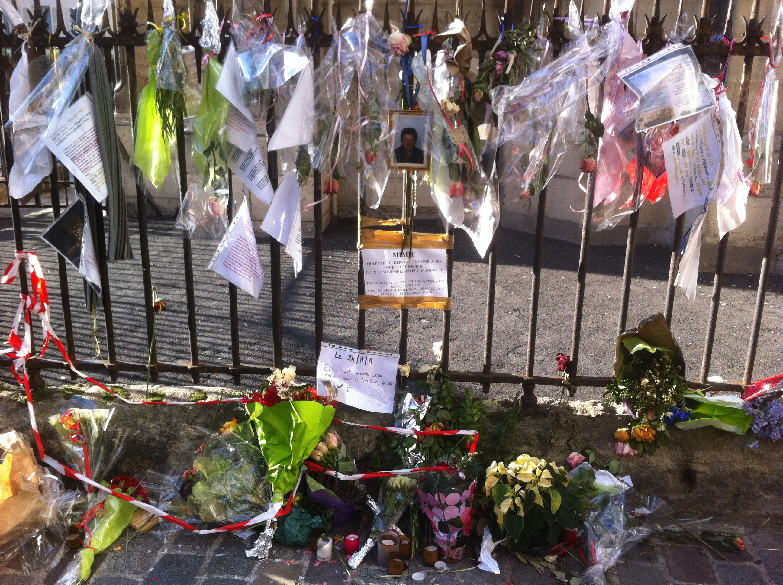 A memory place for a women living in the street, and dead alone in this street on the 24th nov 2011. Paris, Jourdain. (4)